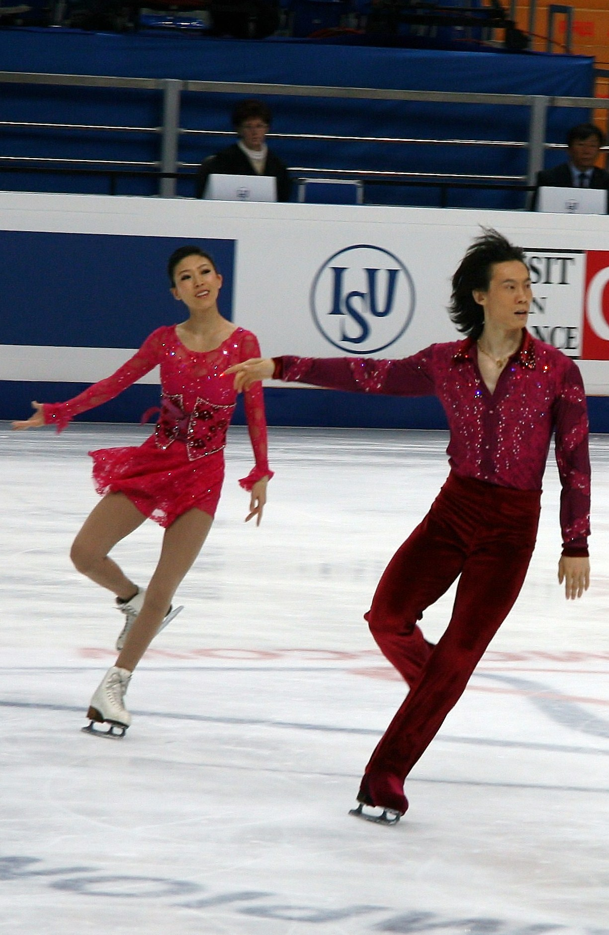 Pang Qing and Tong Jian at the 2011 World Figure Skating Championships